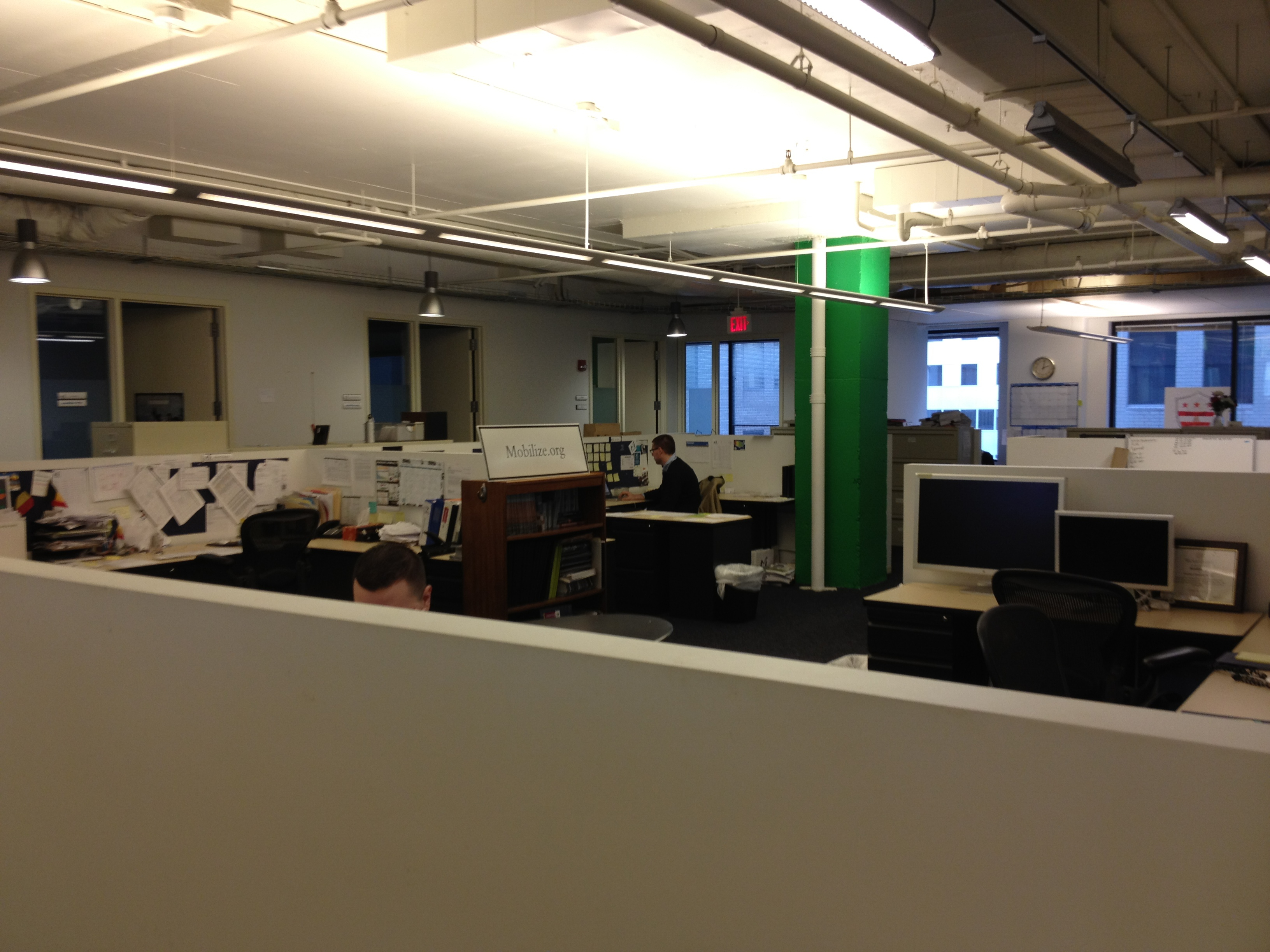 The old office.